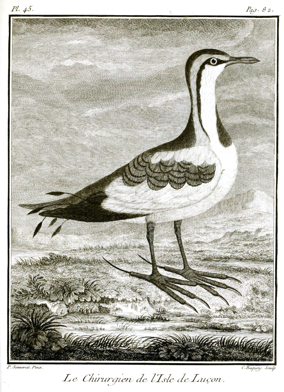 Illustration of Hydrophasianus chirurgus